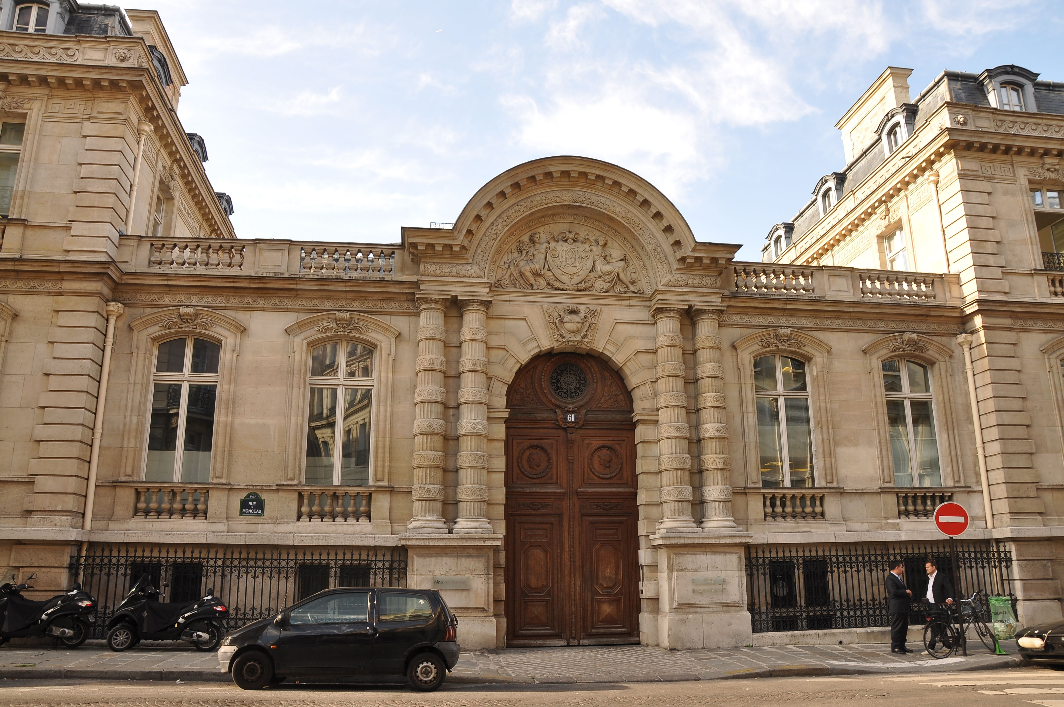 Hotel of Camondo built in 1874-1875 for Abraham de Camondo by the architect Denis-Louis Destors on the border of Parc Monceau in the 8th district of Paris